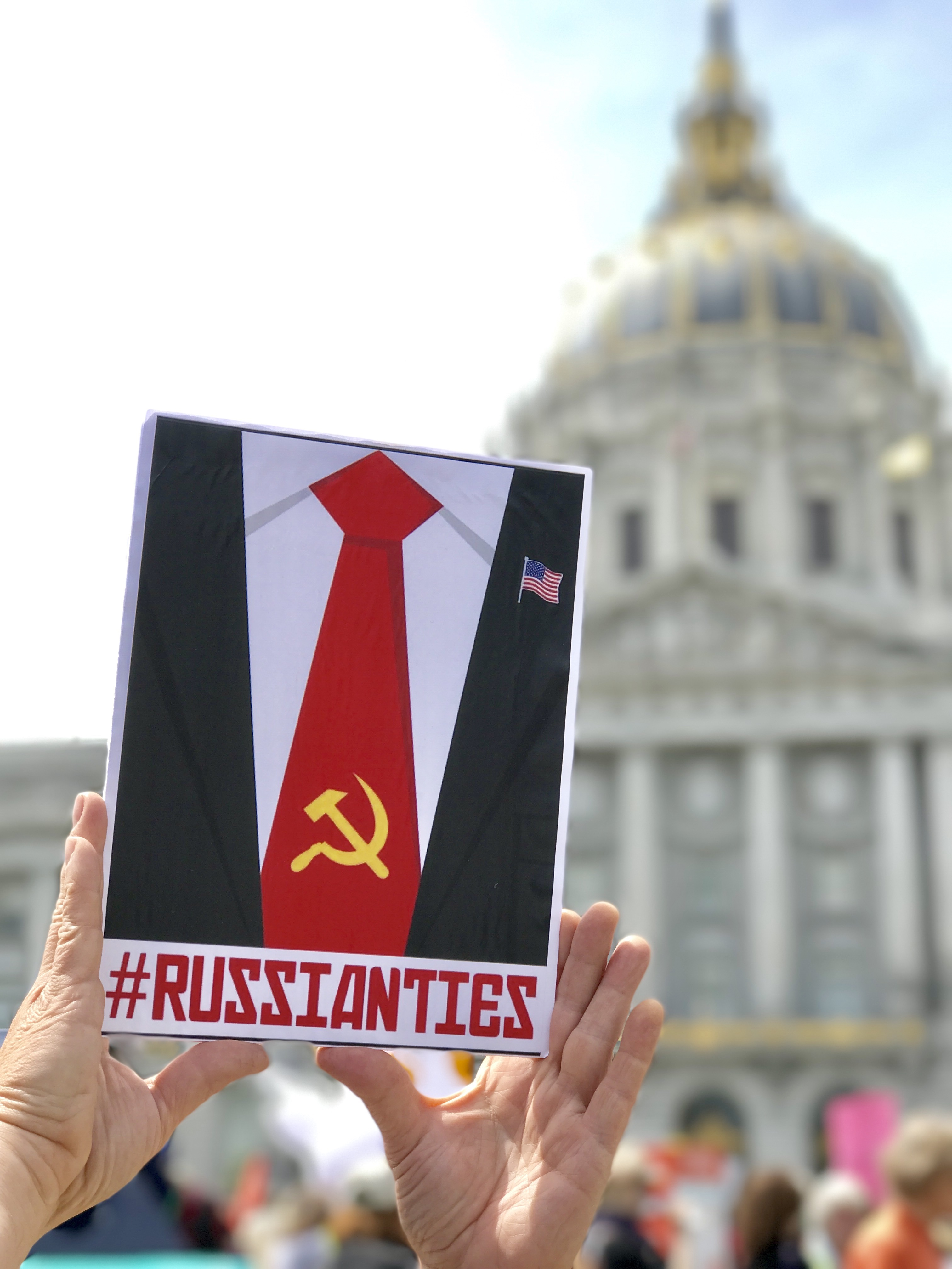 Tax March SF